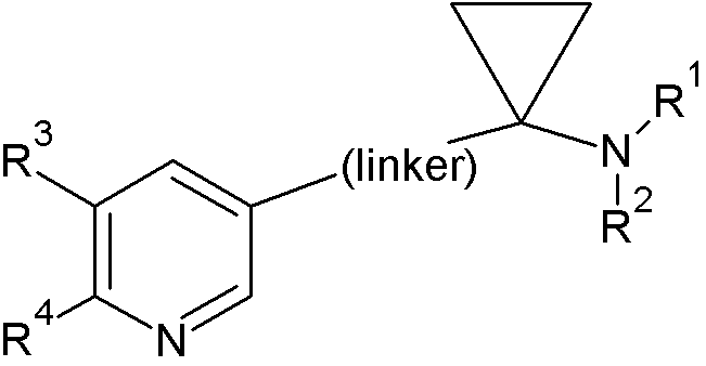 N/A